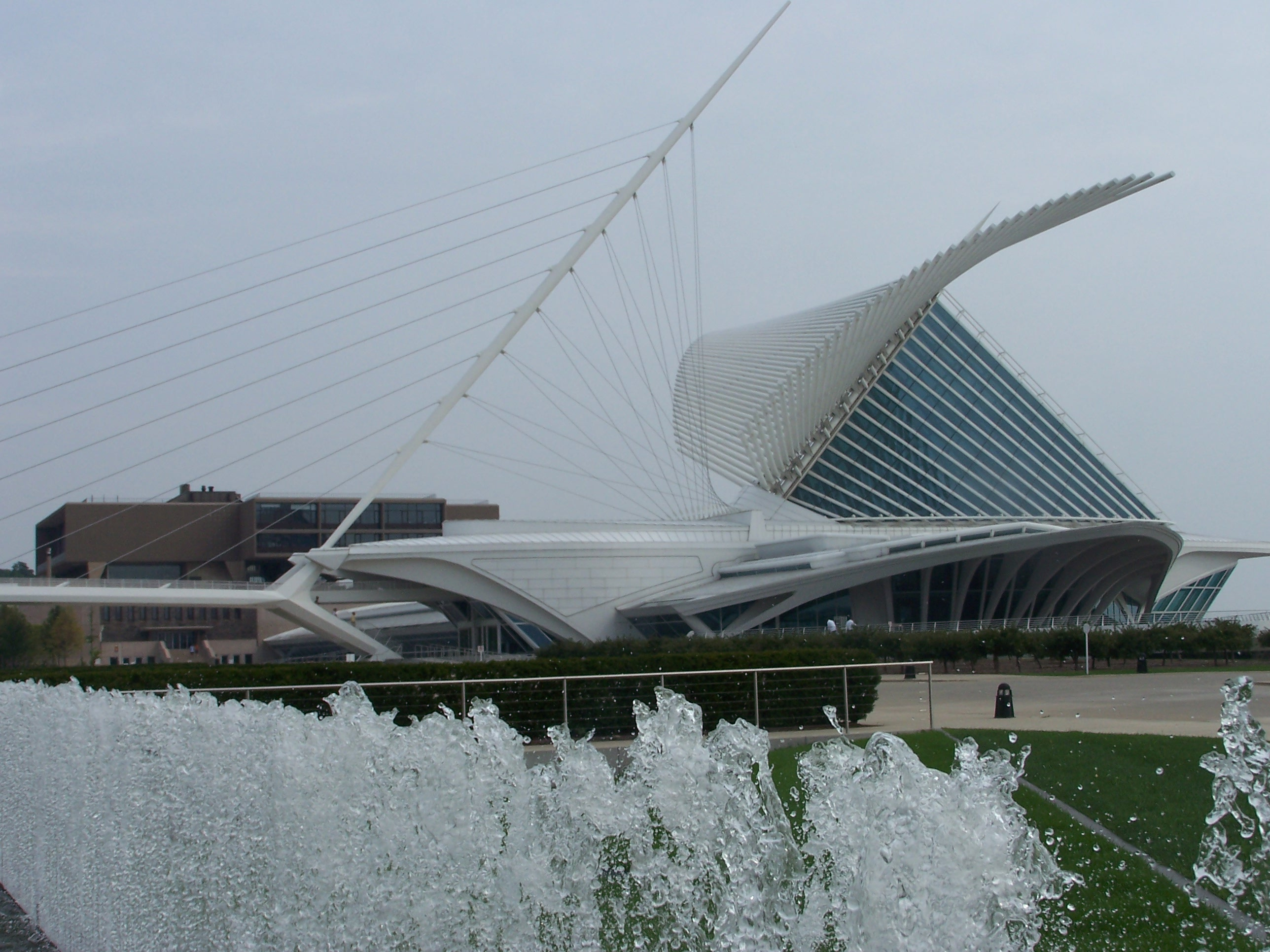 The new Brise Soleil of the Milwaukee Art Museum to the right and the older building of the museum.